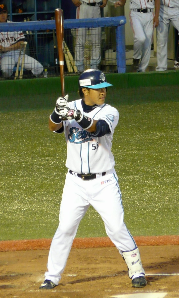 Shigenori Kuremoto, infielder of the Shonan Searex, at Yokosuka Stadium.